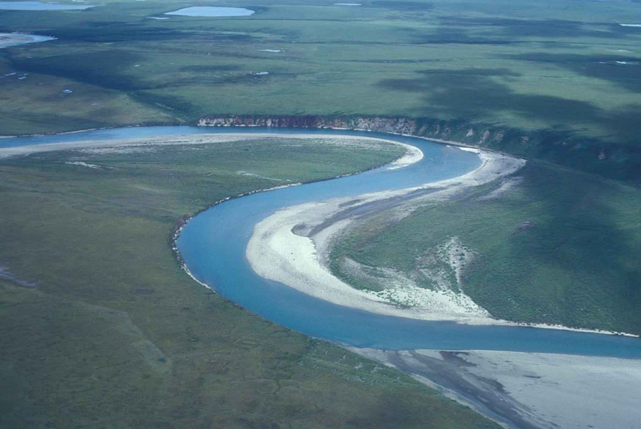 Image title: Noatak river middle section Image from Public domain images website